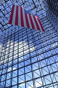 John F. Kennedy Presidential Library and Museum Pavilion